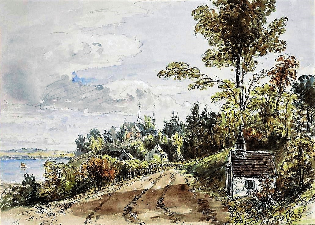 The Church of Château Richerview of Château-Richer, Québec, Canada Watercolour, touches of gouache, pen and ink onver soft black pencil on prepared ground, 25.1 × 33.0 cm